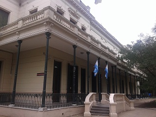 Edificio Central de la Facultad de Ingenieria. UNLP